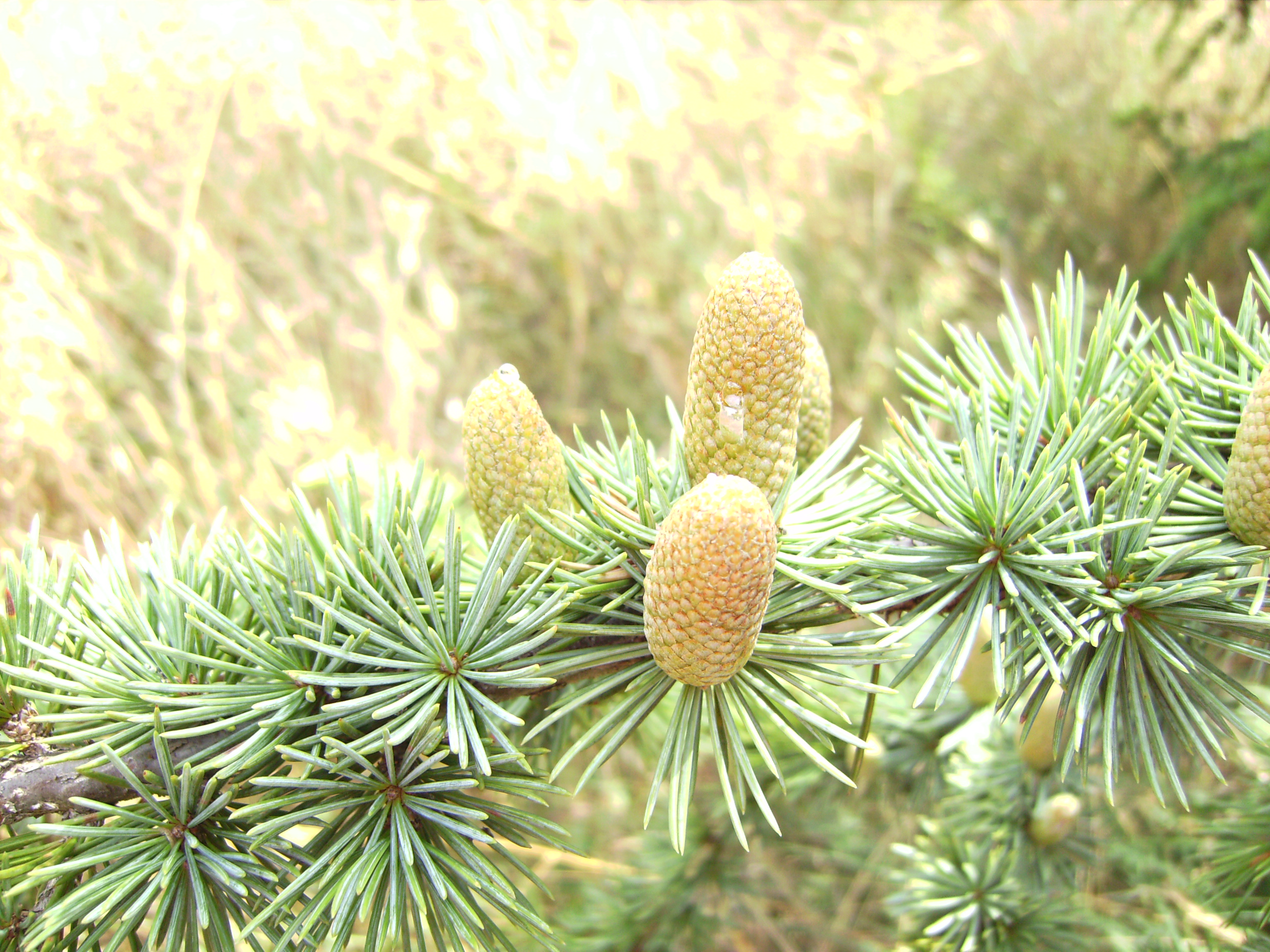 Cedrus libani male catkins in Castelltallat, Catalonia